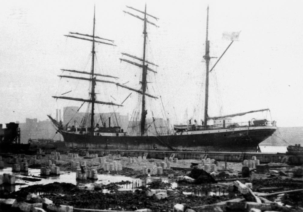 Penang (ship) Penang docked in London.